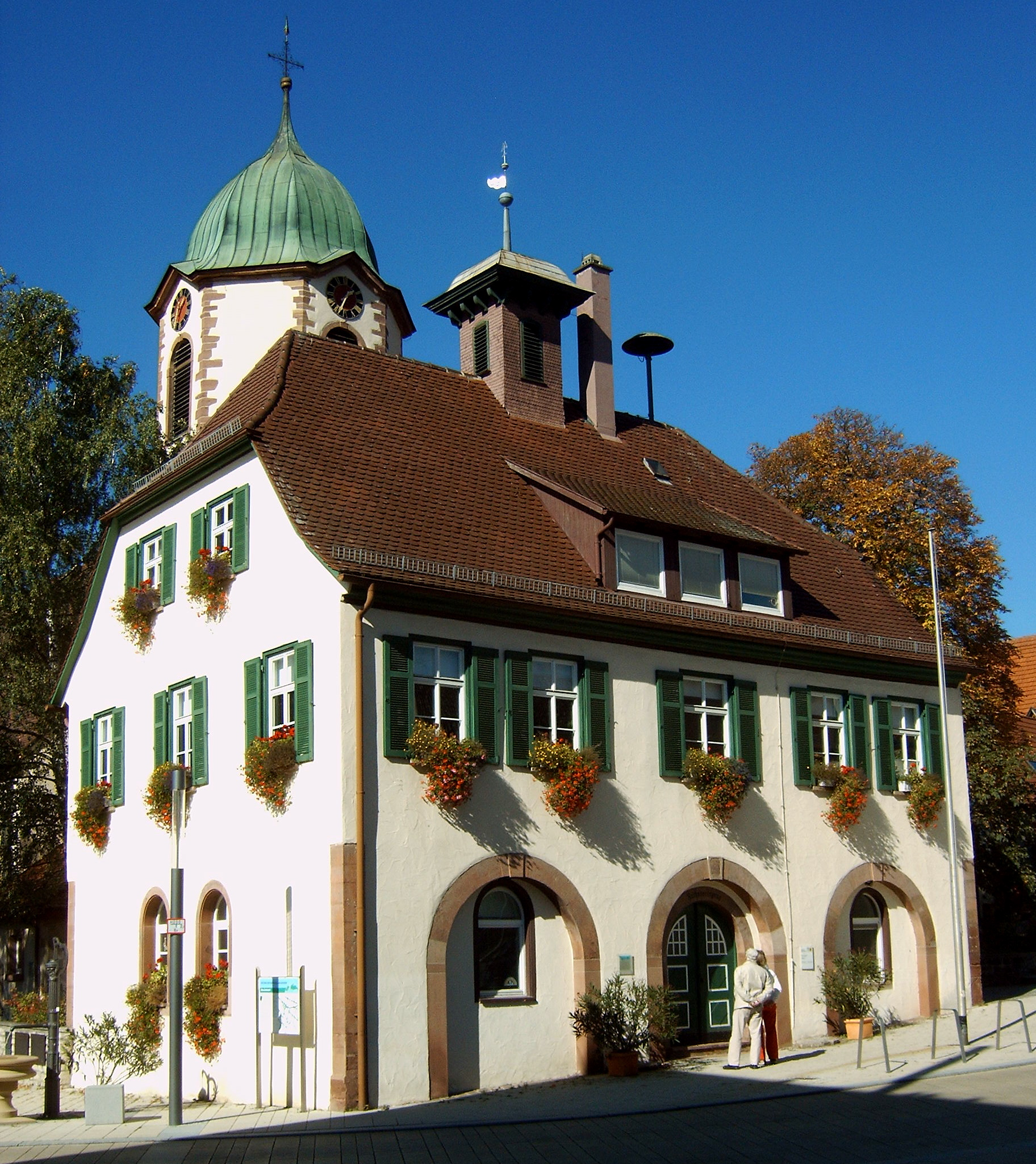 Old town hall of Malmsheim